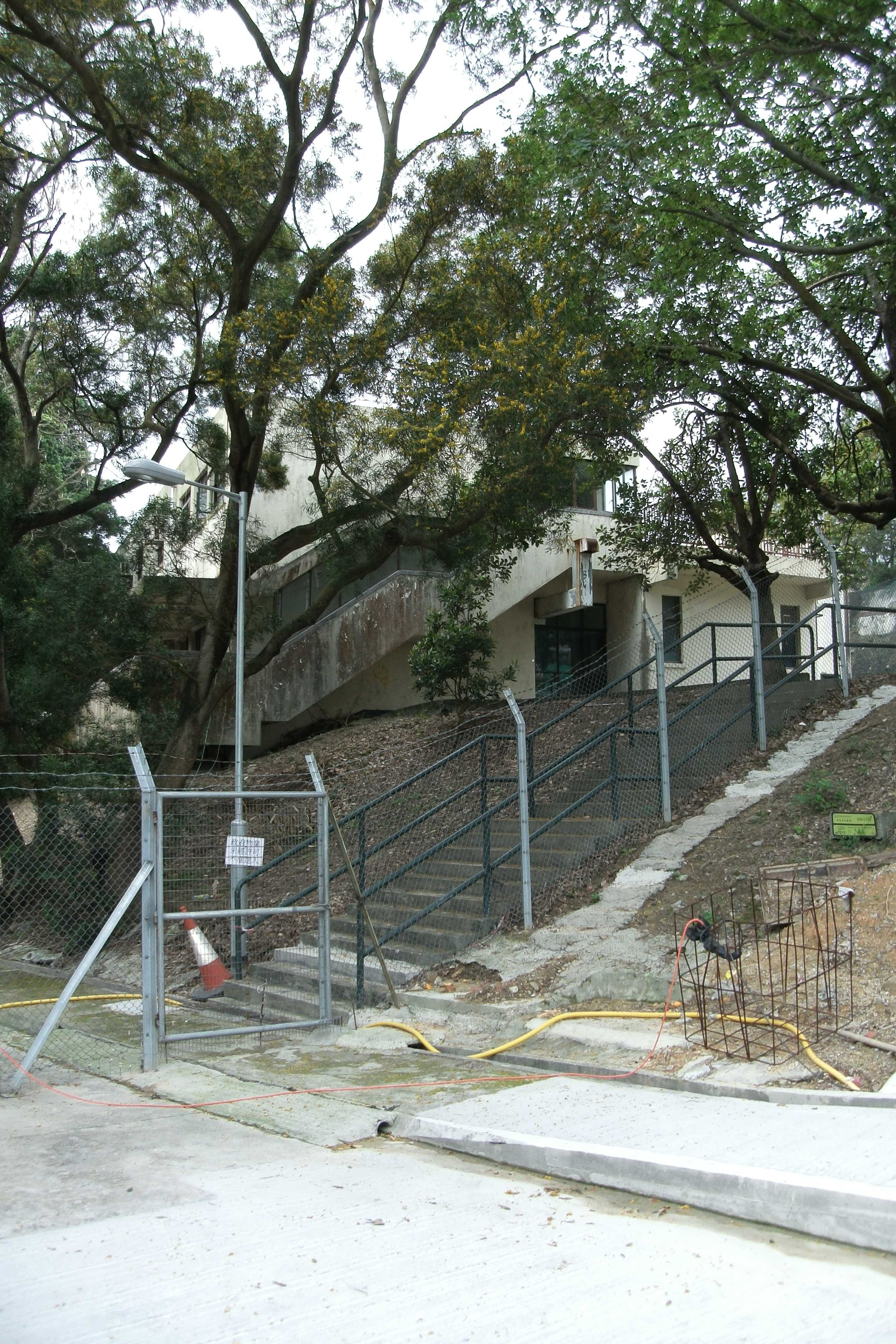 Perowne Camp road to southern part